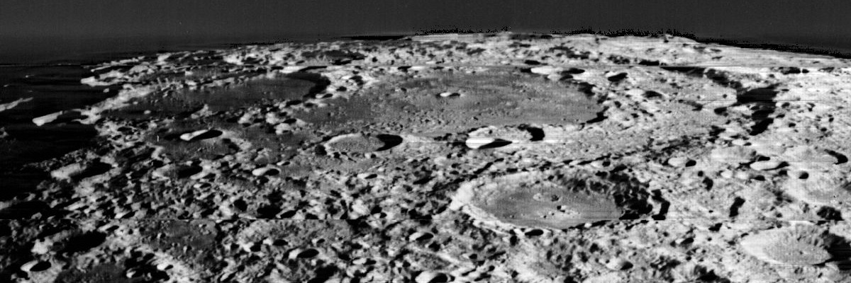 Oblique view of Poincaré crater, on the far side of the moon, facing roughly south.